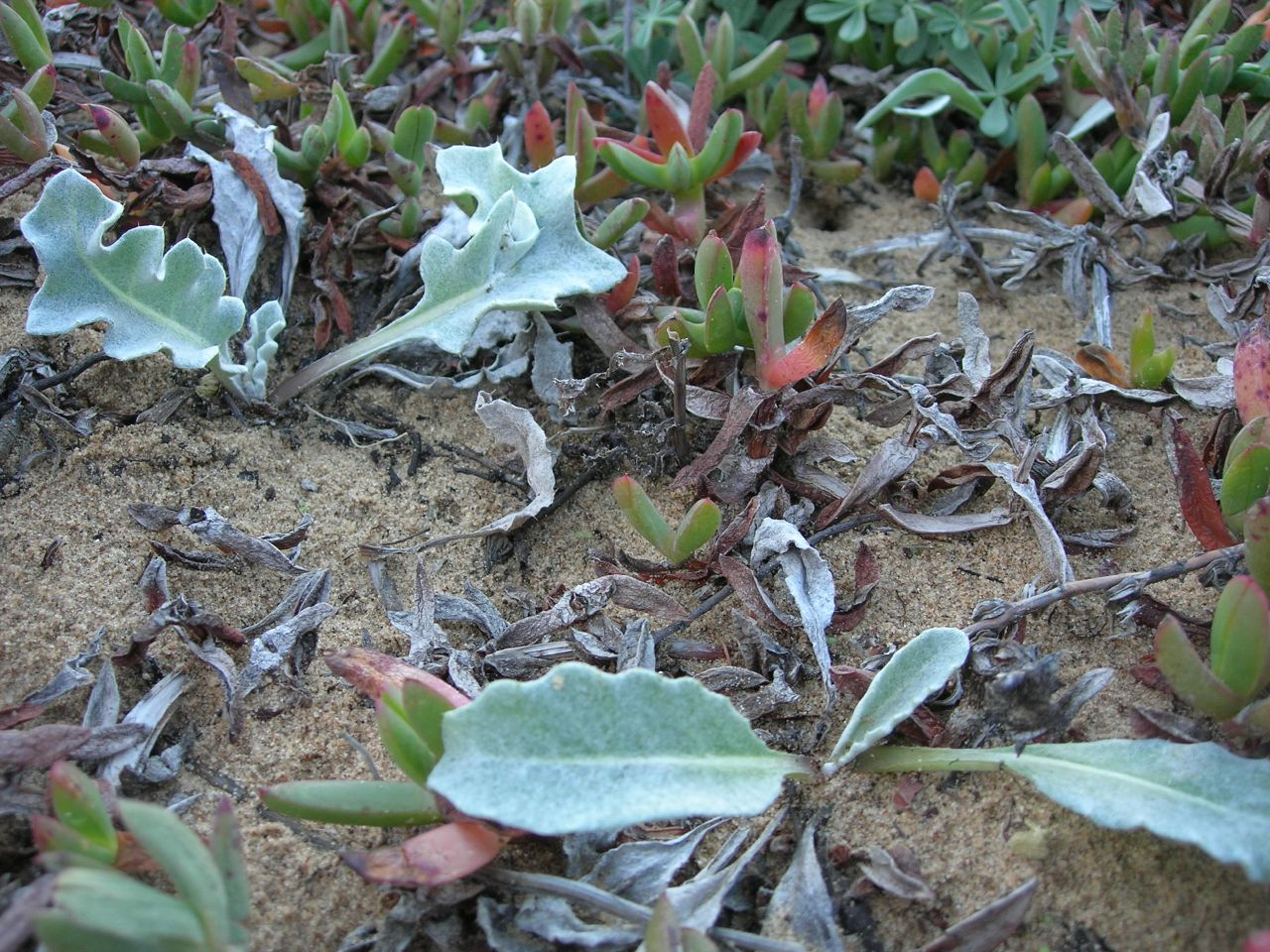 Cirsium rhothophilum, Guadalupe Dunes, Santa Barbara County, CA, December 2006